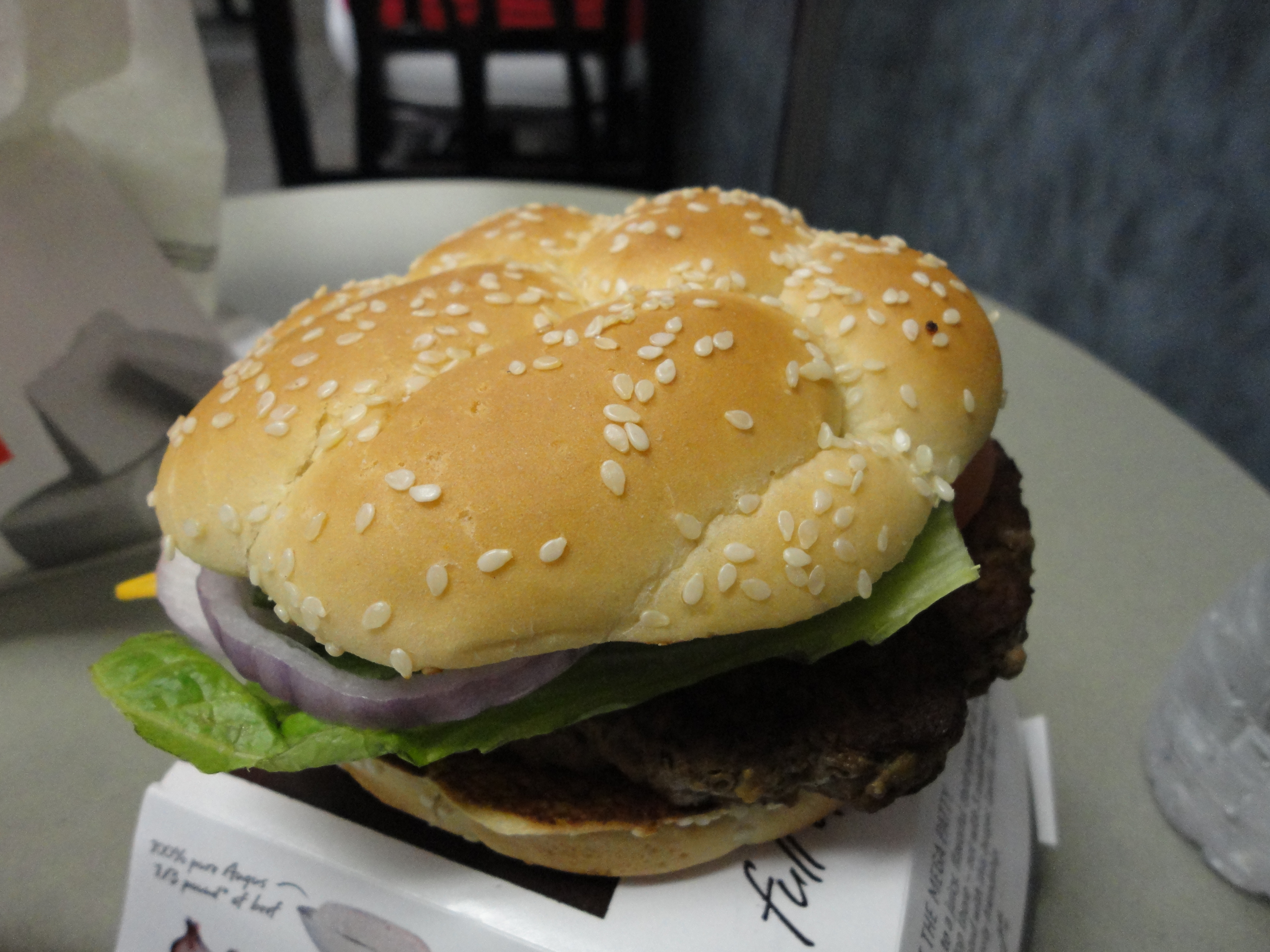 An Angus Deluxe burger of McDonald's. Taken in E 14th St. McDonald's, Manhattan, New York, NY.